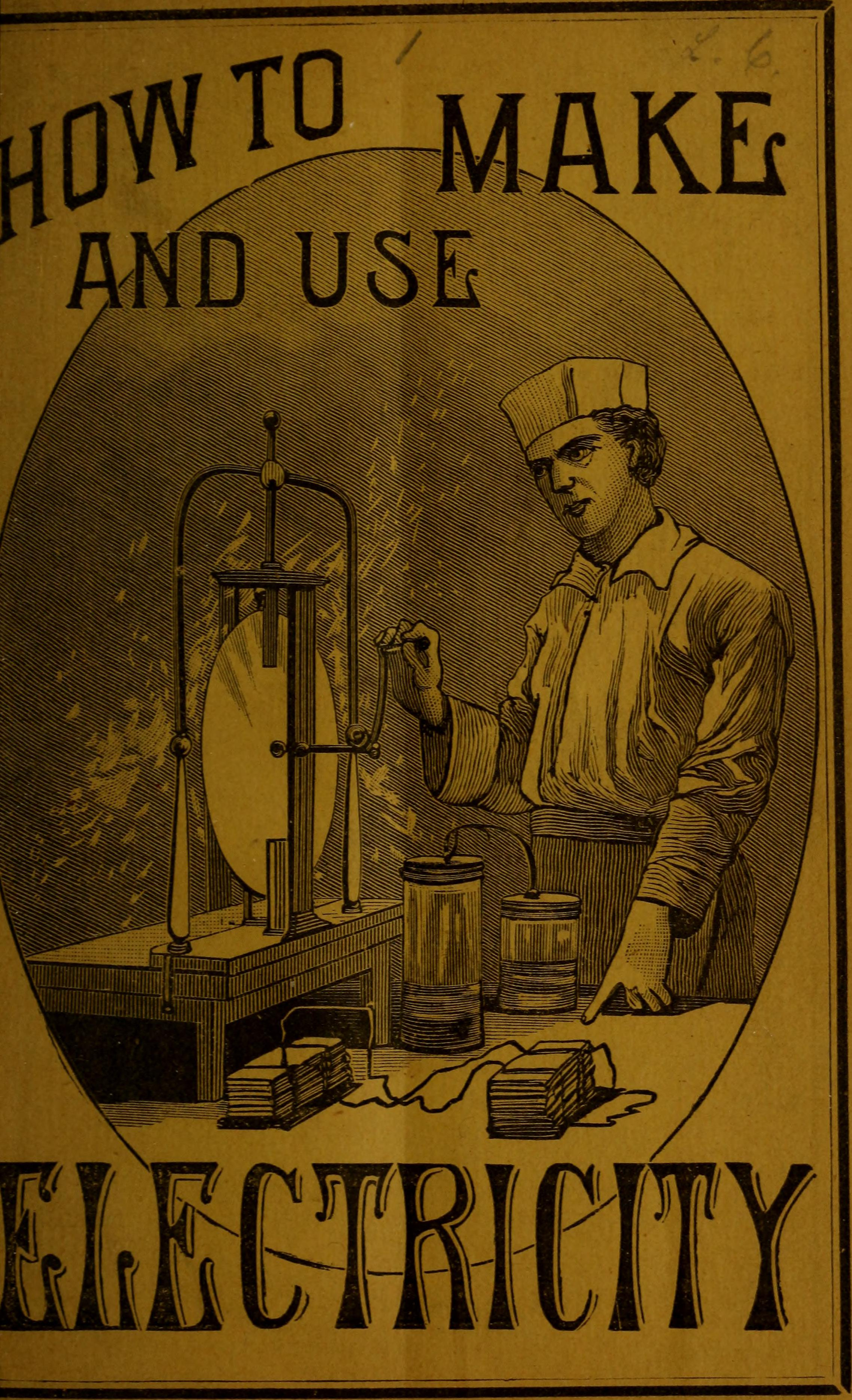 Title: How to make and use electricity .. Year: 1889 (1880s) Authors: Trebel, George. (from old catalog) Subjects: Electricity Publisher: New York, F. Tousey Text Appearing Before Image: 0 003 708 165 6 ,-£**♦«-%, *• - Text Appearing After Image: HOW TO Make and Use Electricity. A Description of the Wonderful Uses of Electricity and Electro-Magnetism, Together with Full Instructions for Making Electric Toys, Batteries, Etc., Etc. 3 Containing Over Fifty Illustrations. New Yobk:PEANK TOUSEY, Publisher, 34 and 86 North Moore St. \howtomakeuseelec00treb